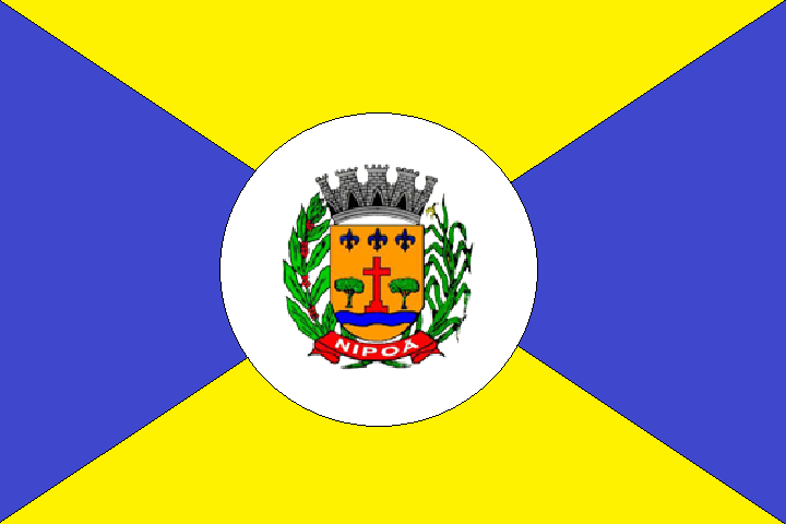 Flag of Nipoã, state of São Paulo, Brazil. This work is in the public domain in Brazil for one of the following reasons: It is a work published or commissioned by a Brazilian government (federal, state, or municipal) prior to 1983.(Law 3071/1916, art. 662; Law 5988/1973, art. 46; Law 9610/1998, art. 115) It is the text of a treaty, convention, law, decree, regulation, judicial decision, or other official enactment.(Law 9610/1998, art. 8) This image shows a flag, a coat of arms, a seal or some other official insignia. The use of such symbols is restricted in many countries. These restrictions are independent of the copyright status.